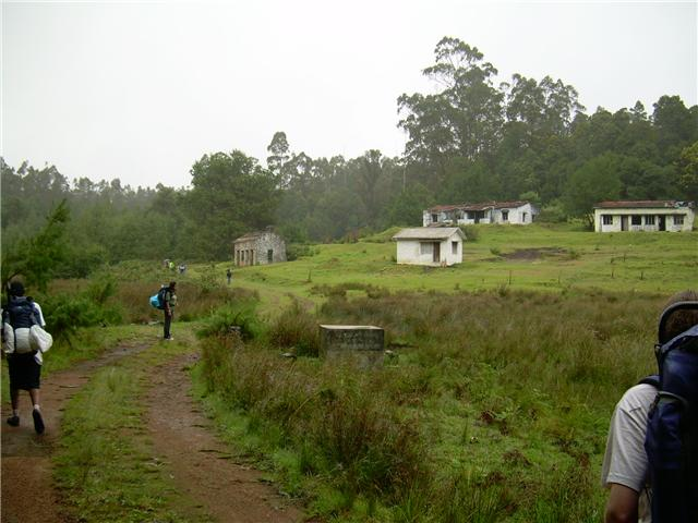 "Causeway" on the Munnar Road, past_first trout stream, showing Forest Department Hut and other Forest Department buildings